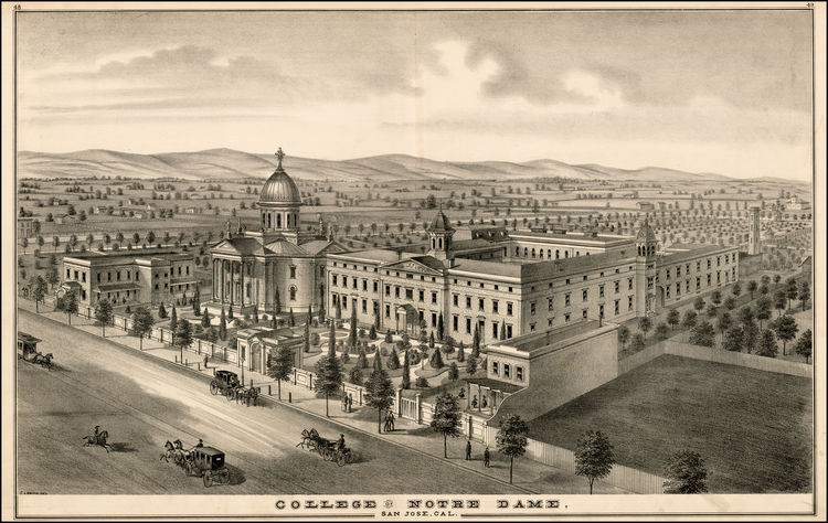 Founded by the Sisters of Notre Dame de Namur in 1851. Notre Dame's original San Jose campus was at Santa Clara Street and Notre Dame Avenue. It was the first school to be accredited by the state of California to give degrees to women. In 1923 the college was moved to the Ralston estate in Belmont, California and is known as Notre Dame de Namur. In 1928 the high school was moved 5 blocks away to Second and Reed Street where it continues today as Notre Dame San Jose. This illustration was originally published in 1876 by Thompson and West.